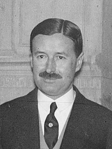 Pierre René Guy de Wendel (22 April 1878 – 6 April 1955) was a French politician. Image cropped from a group photograph of Alsace-Lorraine deputies